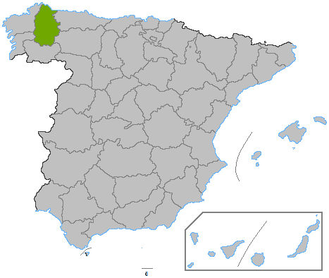 Location of the province of Lugo, in Spain. Basado en: ProvPont.jpg Source: Designed by Satesclop. Original picture, designed by Sobreira.